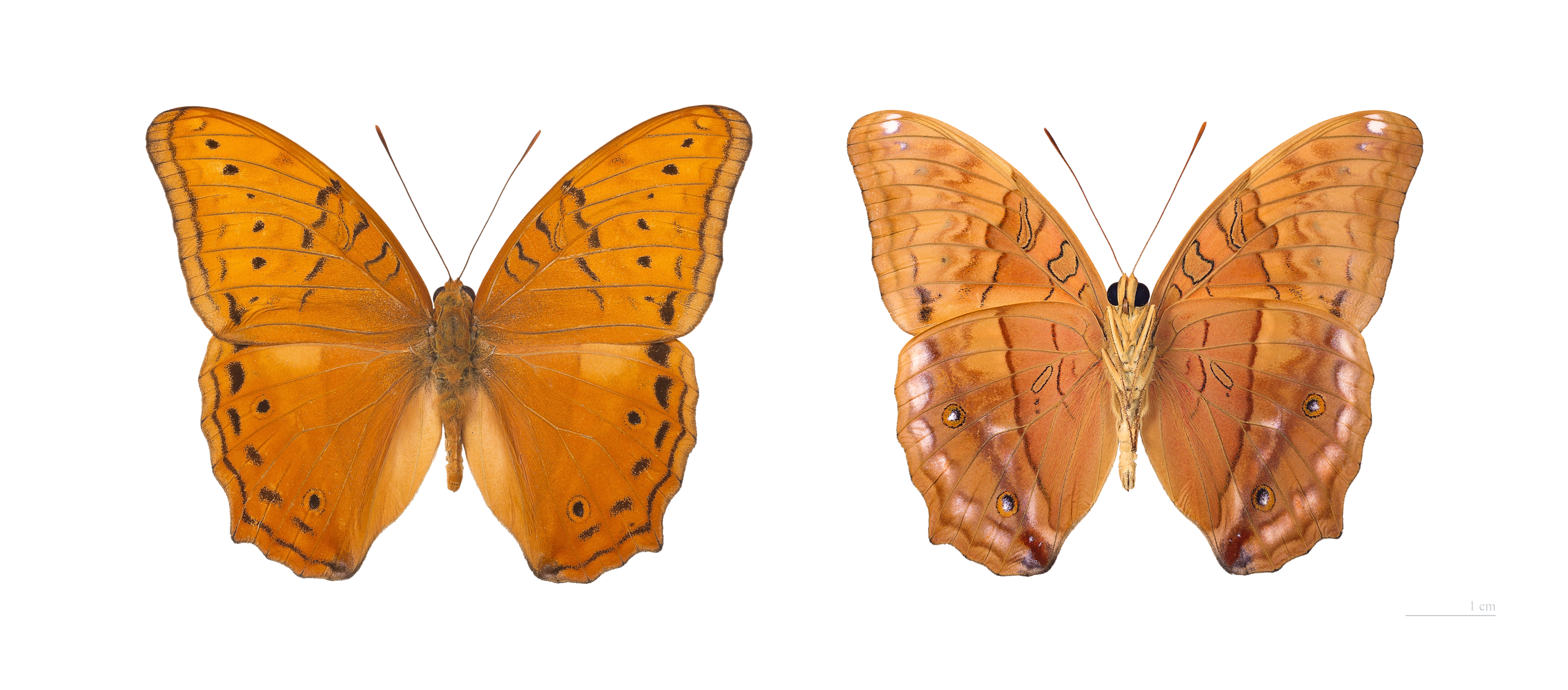 ♂ - Two views of same specimen Locality: Cairns Queensland, Australia.